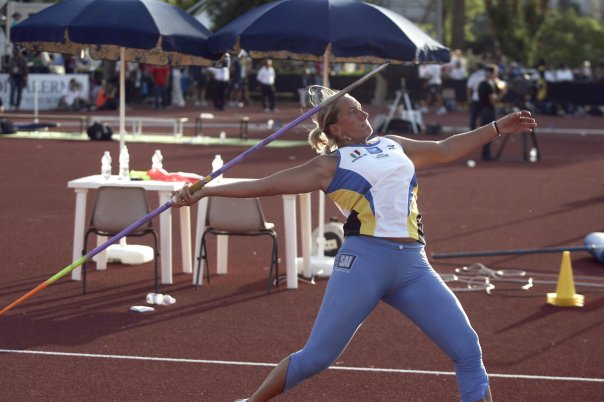 Director Claudia Coslovich training in Italy in 2006